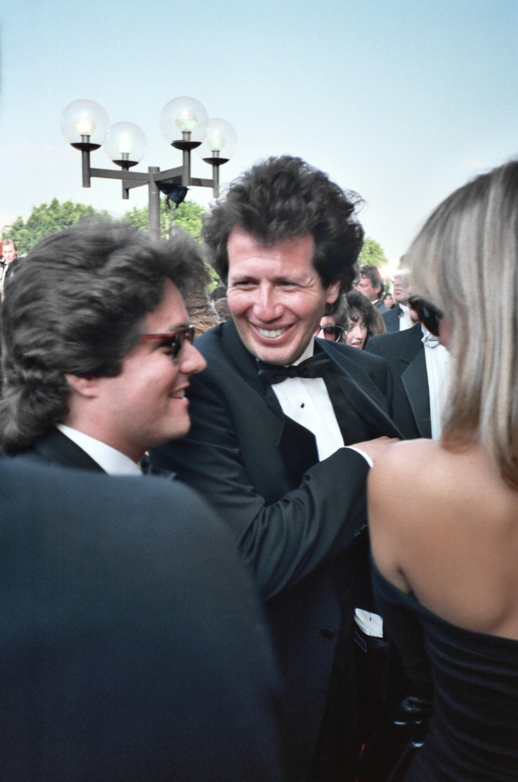 1987 Emmy Awards Brad Grey and Garry Shandling, with Linda Doucett looking on. This photo was used in Part 2 of Judd Apatow's documentary "The Zen Diaries of Garry Shandling," shown on HBO. NOTE: Permission granted to copy, publish, broadcast or post any of my photos, but please credit "photo by Alan Light" if you can. Thanks. Scanned from the original 35MM film negative.